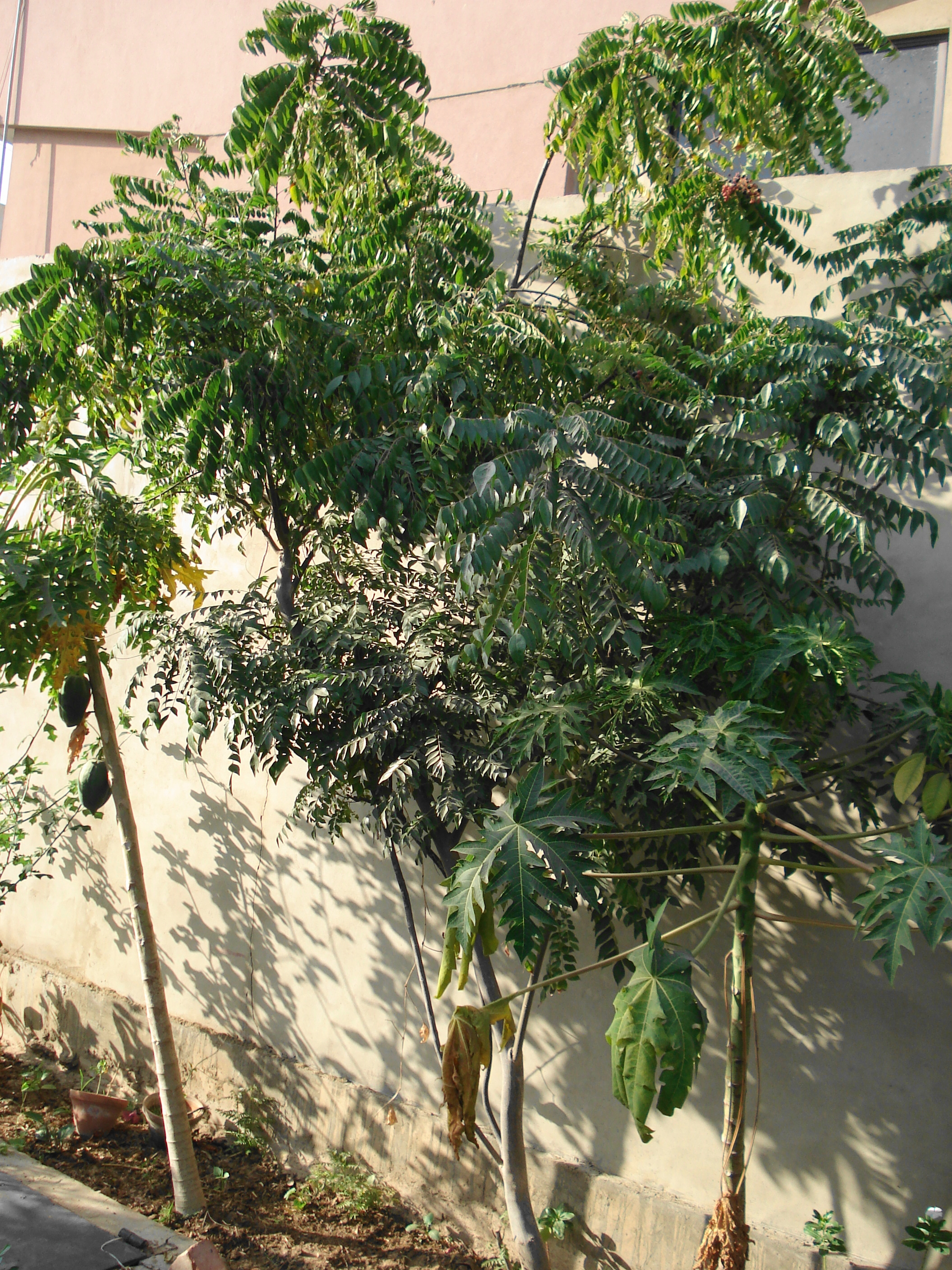 curry patta tree